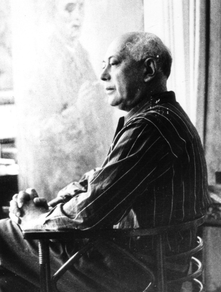 Alexej von Assaulenko